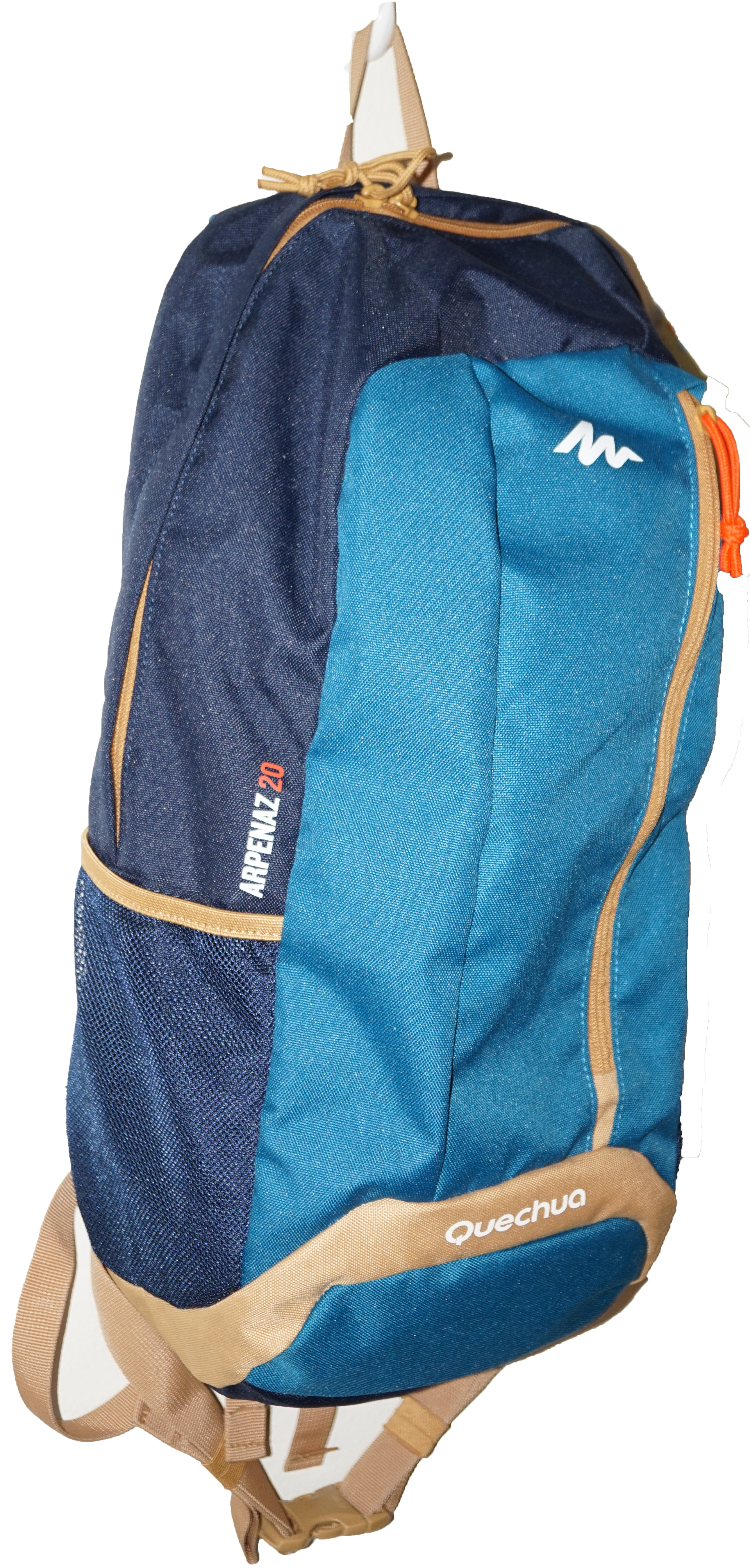 The backpack Quechua Arpenaz 20 (20 litres).